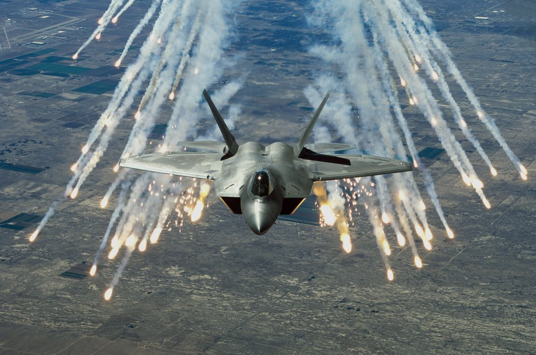 F-22 deploys flares